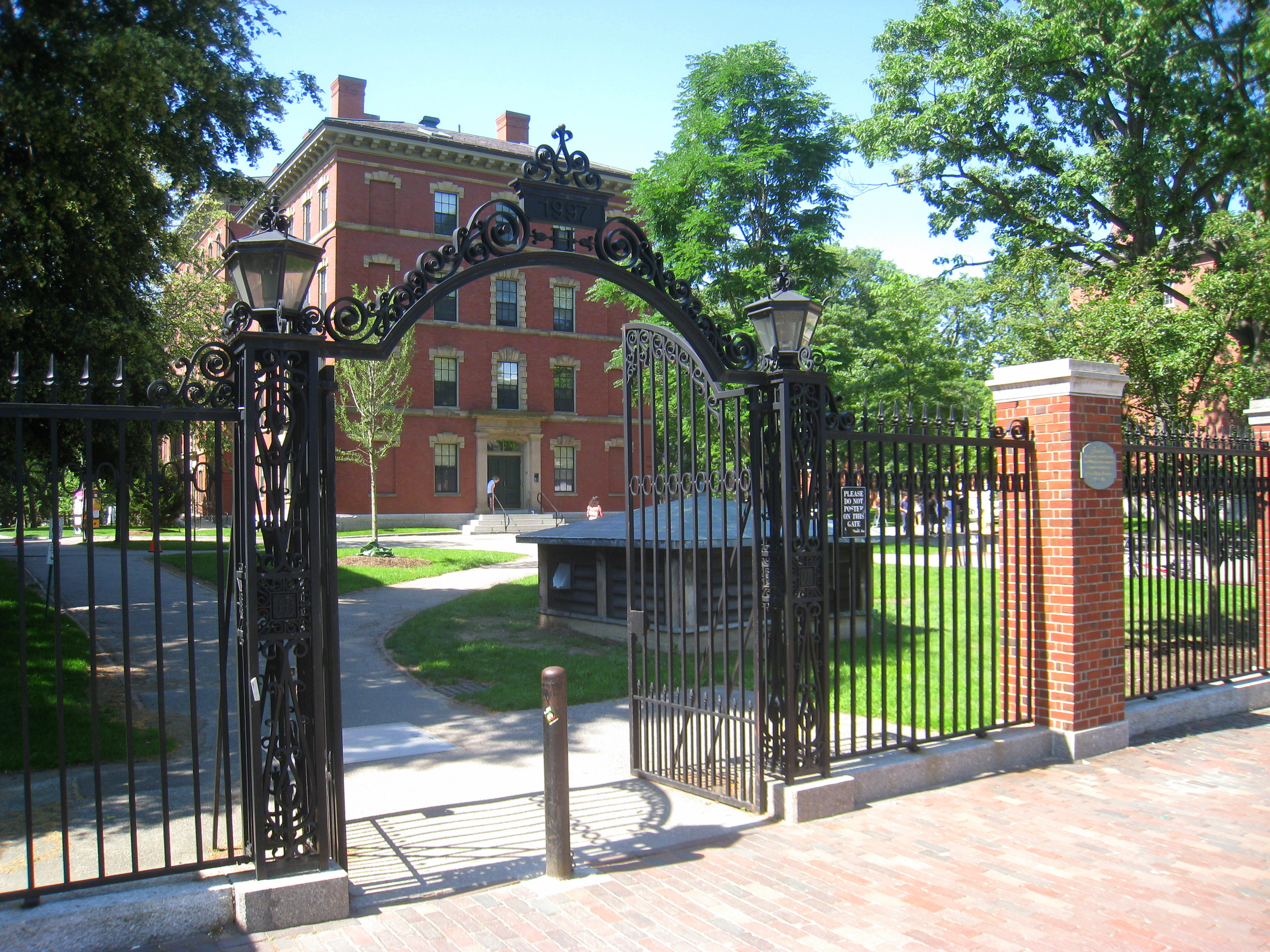 Bradstreet Gate (also known as 1997 Gate), Harvard Yard, Harvard University, Cambridge, Massachusetts, USA.